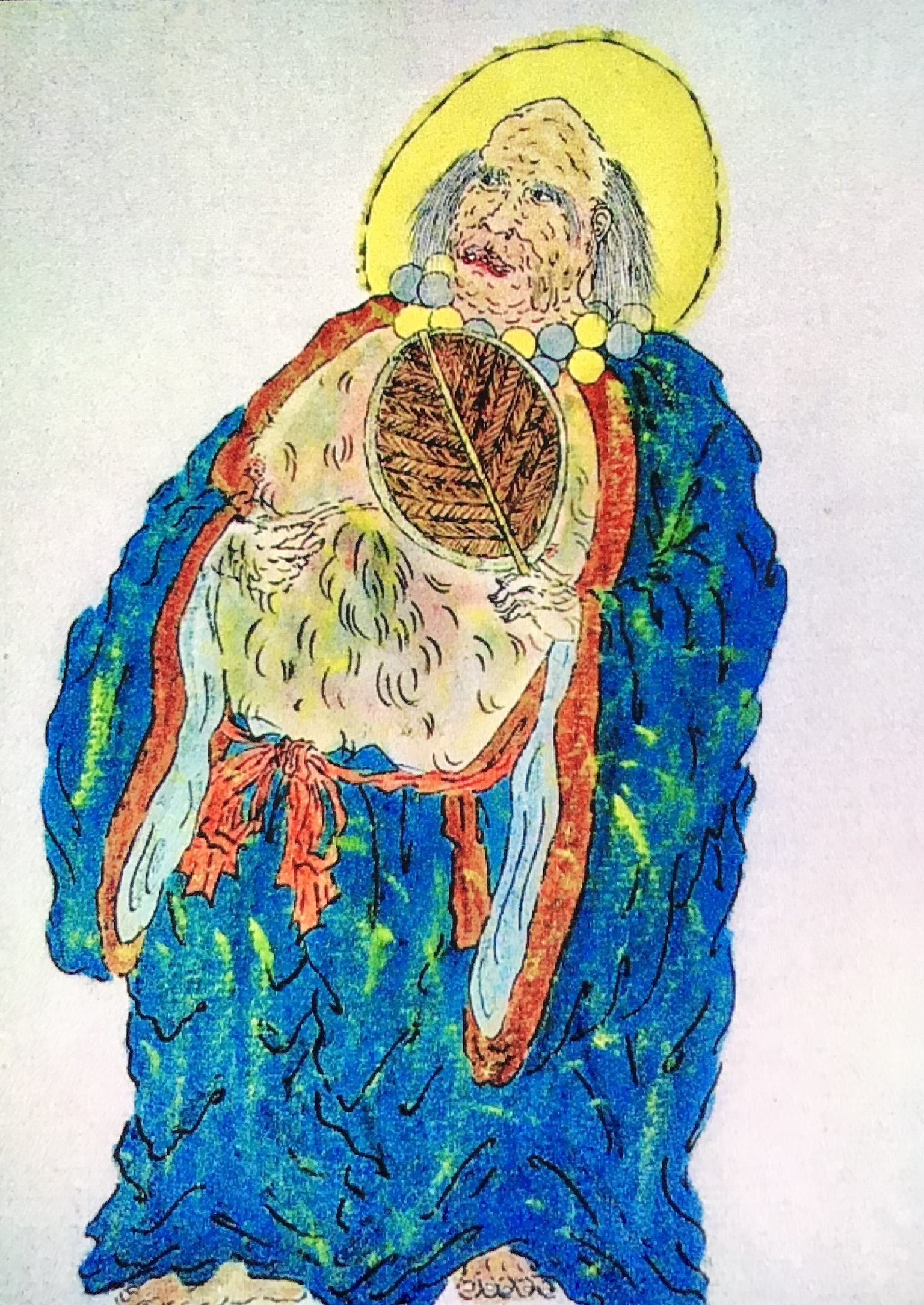 Ancient Chinese god Bareboot Immortal